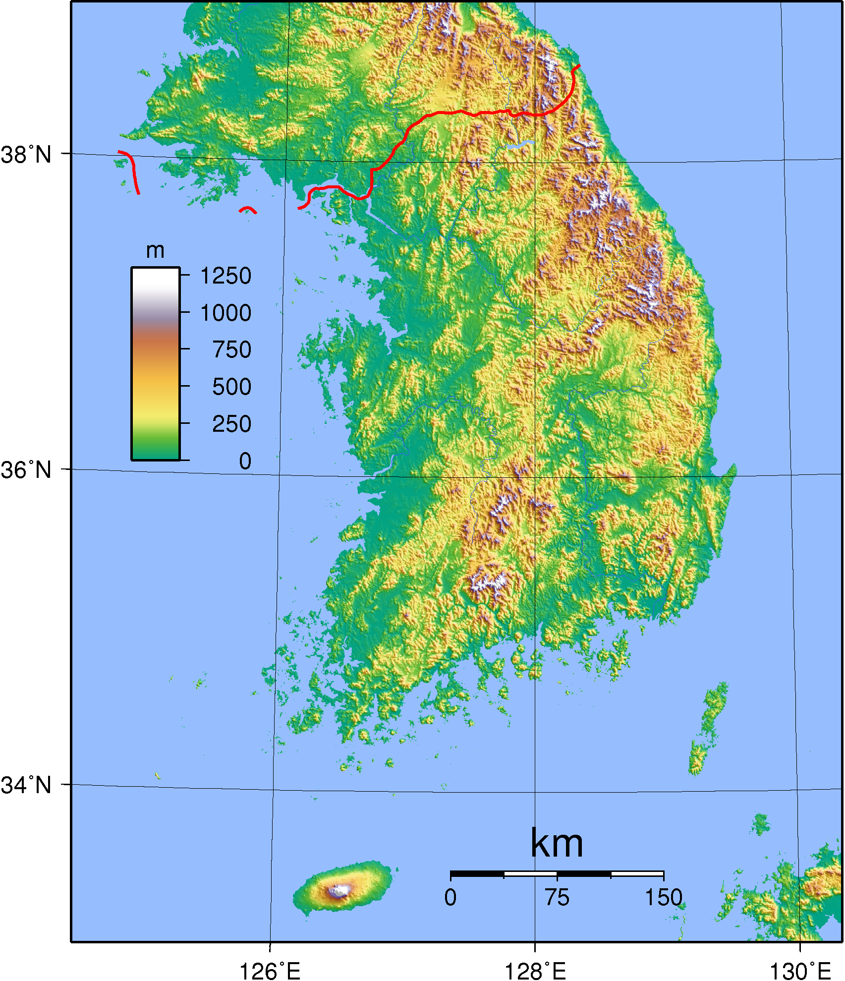 Topographic map of South Korea. Created with GMT from SRTM data.